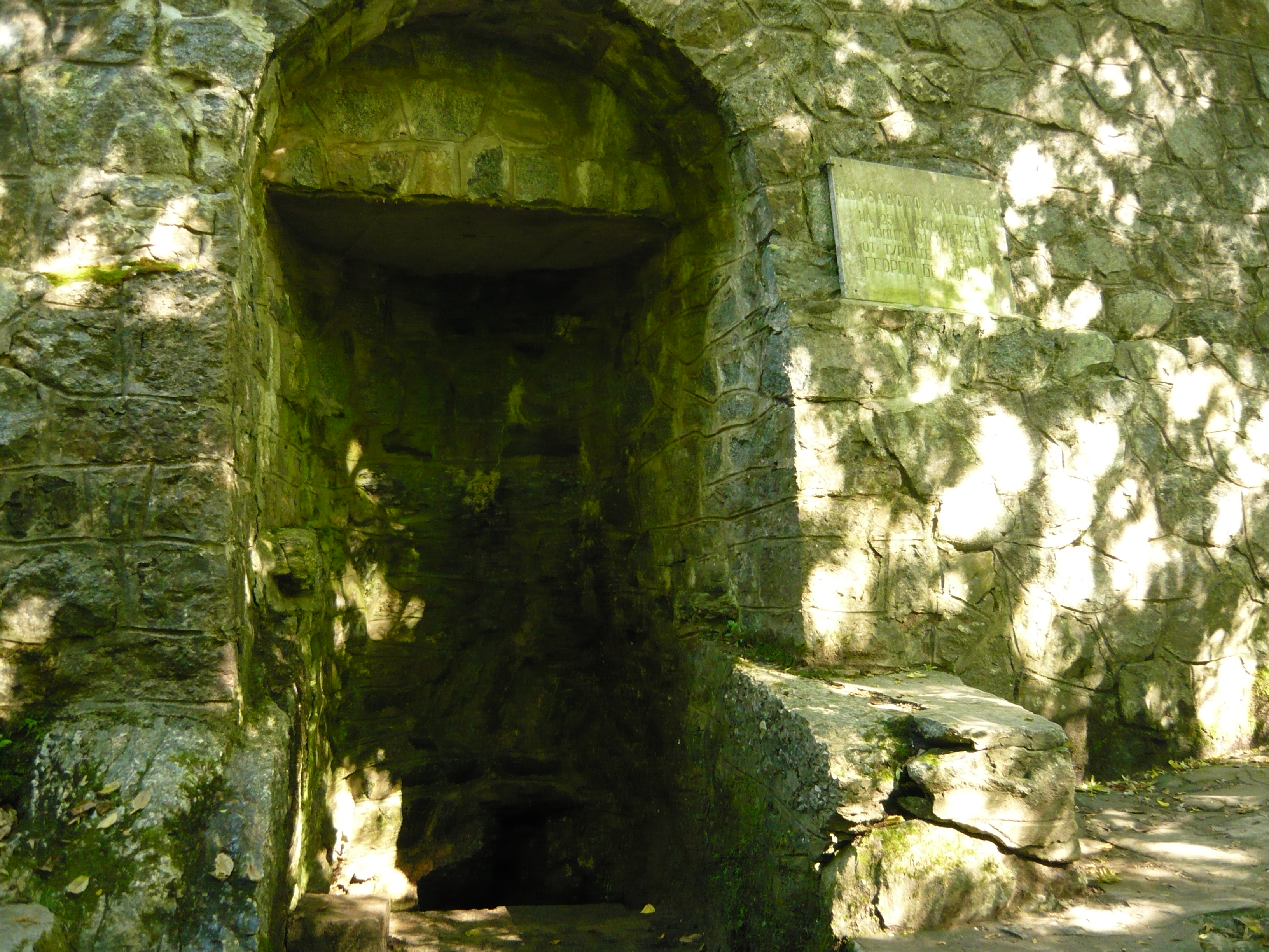 "The bloody well", Kostina - The well in which the severed head of Benkovski has been washed.